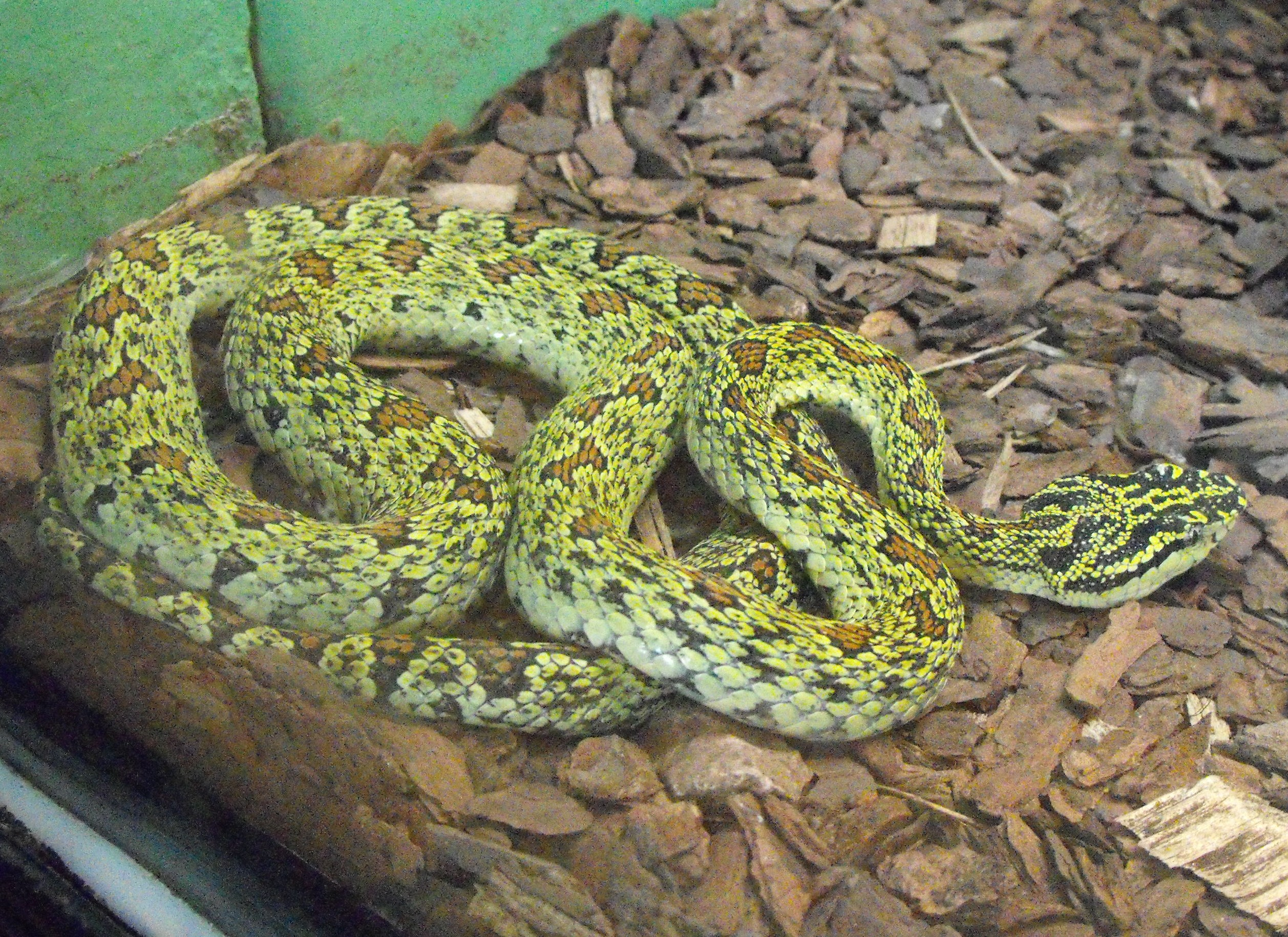 Trimeresurus jerdonii at the San Diego Zoo, California, USA. Identified by sign as Protobothrops j.